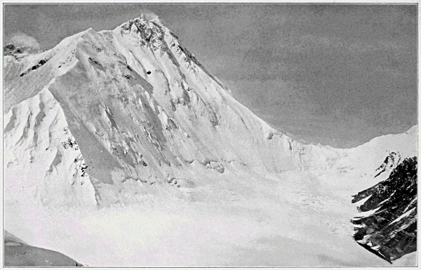 North-east of Mount Everest and Chang La from Lhakpa La Photograph from page 246 Howard-Bury, C. K. (1922). Mount Everest the Reconnaissance, 1921 (1 ed.). New York, Longman & Green